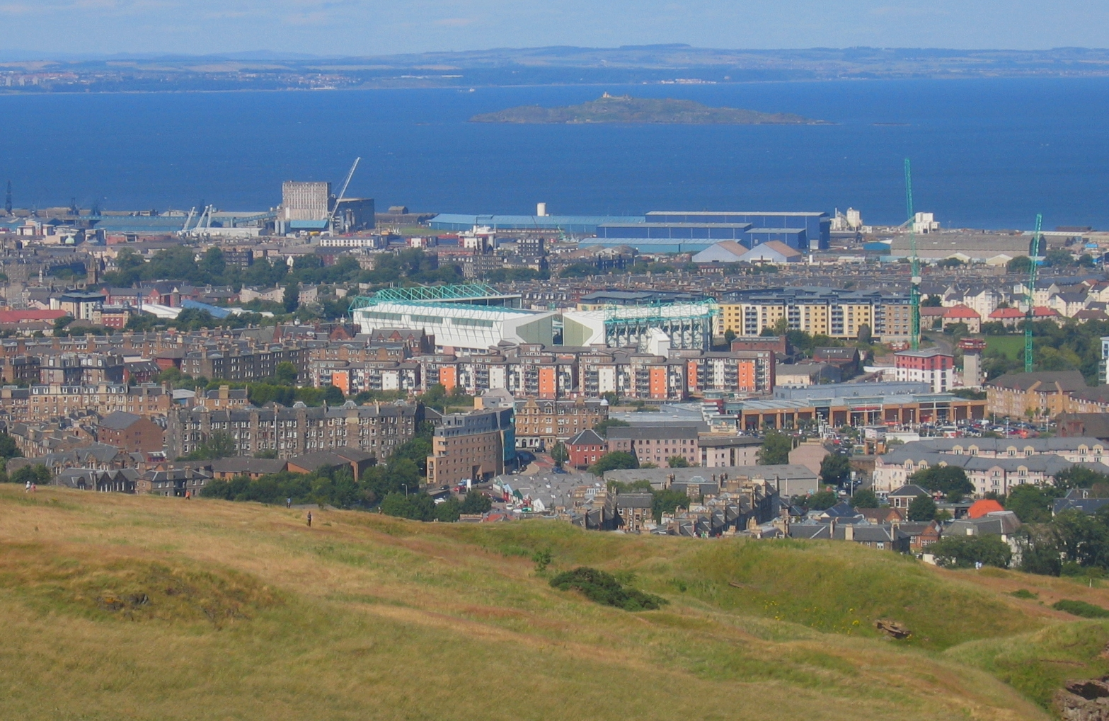 Easter Road from afar